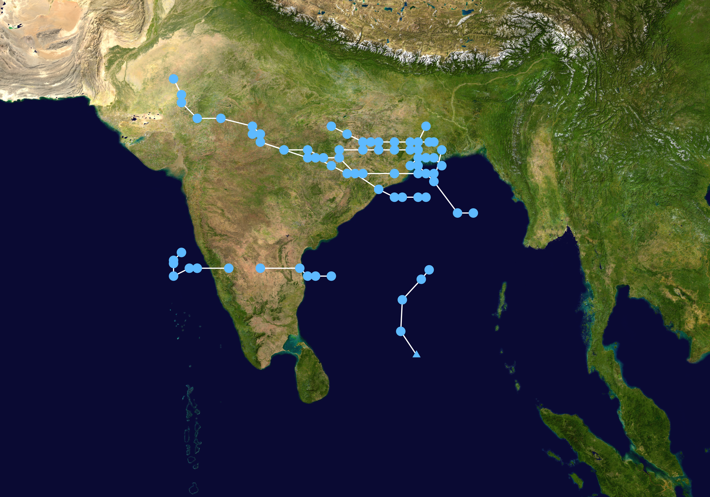 This map shows the tracks of all tropical cyclones in the 1990 North Indian Ocean cyclone season. The points show the location of each storm at 6-hour intervals. The colour represents the storm's maximum sustained wind speeds as classified in the Saffir-Simpson Hurricane Scale (see below), and the shape of the data points represent the type of the storm. Saffir–Simpson scale Tropical depression≤38 mph≤62 km/h Category 3111–129 mph178–208 km/h Tropical storm39–73 mph63–118 km/h Category 4130–156 mph209–251 km/h Category 174–95 mph119–153 km/h Category 5≥157 mph≥252 km/h Category 296–110 mph154–177 km/h Unknown Storm type Tropical cyclone Subtropical cyclone Extratropical cyclone / Remnant low / Tropical disturbance / Monsoon depression